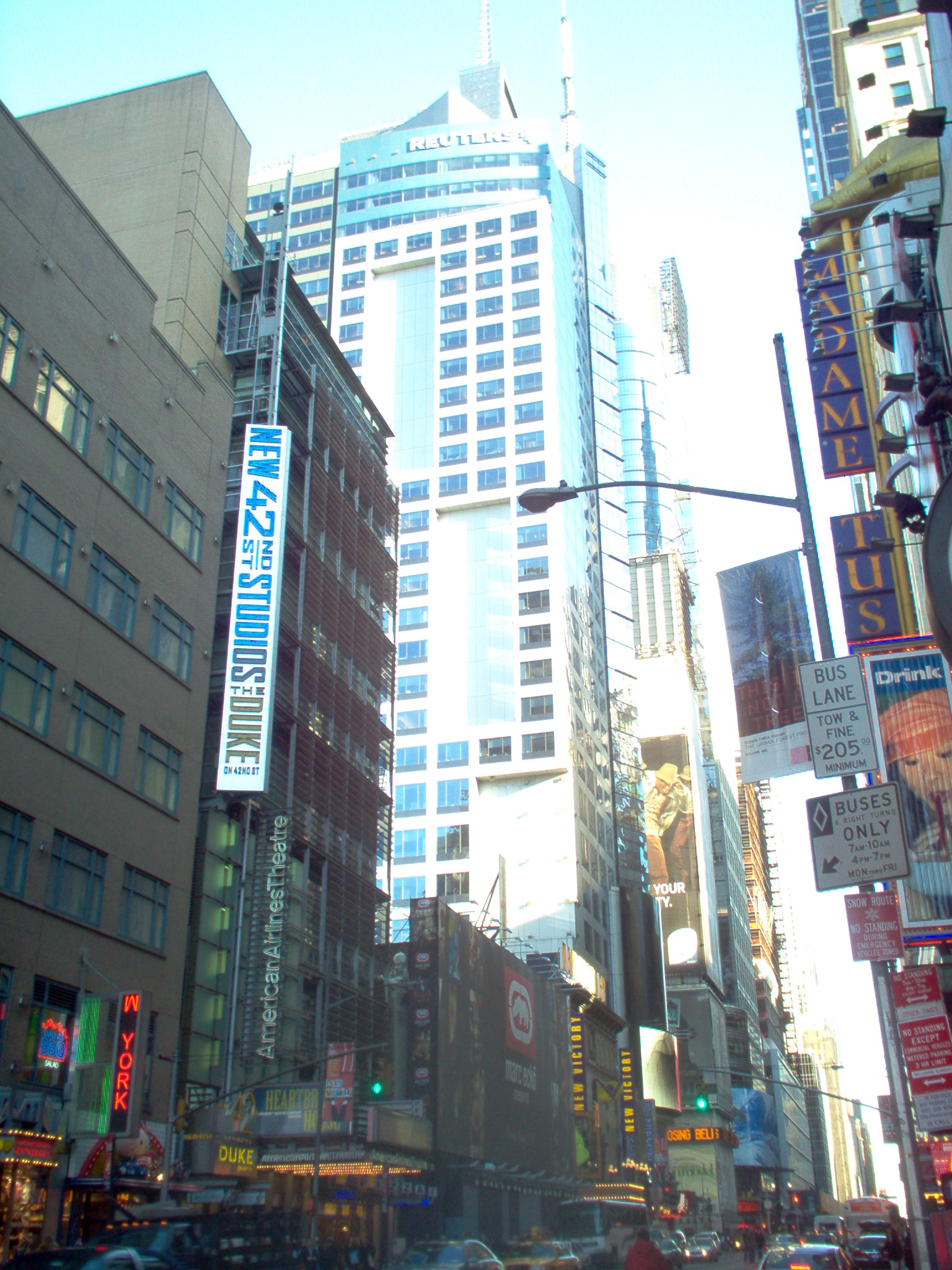 Reuters Building at Times Square, New York City. As seen from across 42nd Street on 7th Avenue.